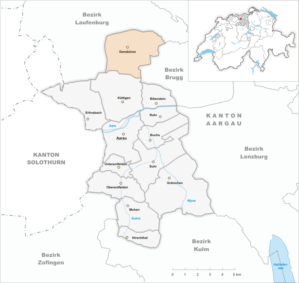 Municipality Densbüren